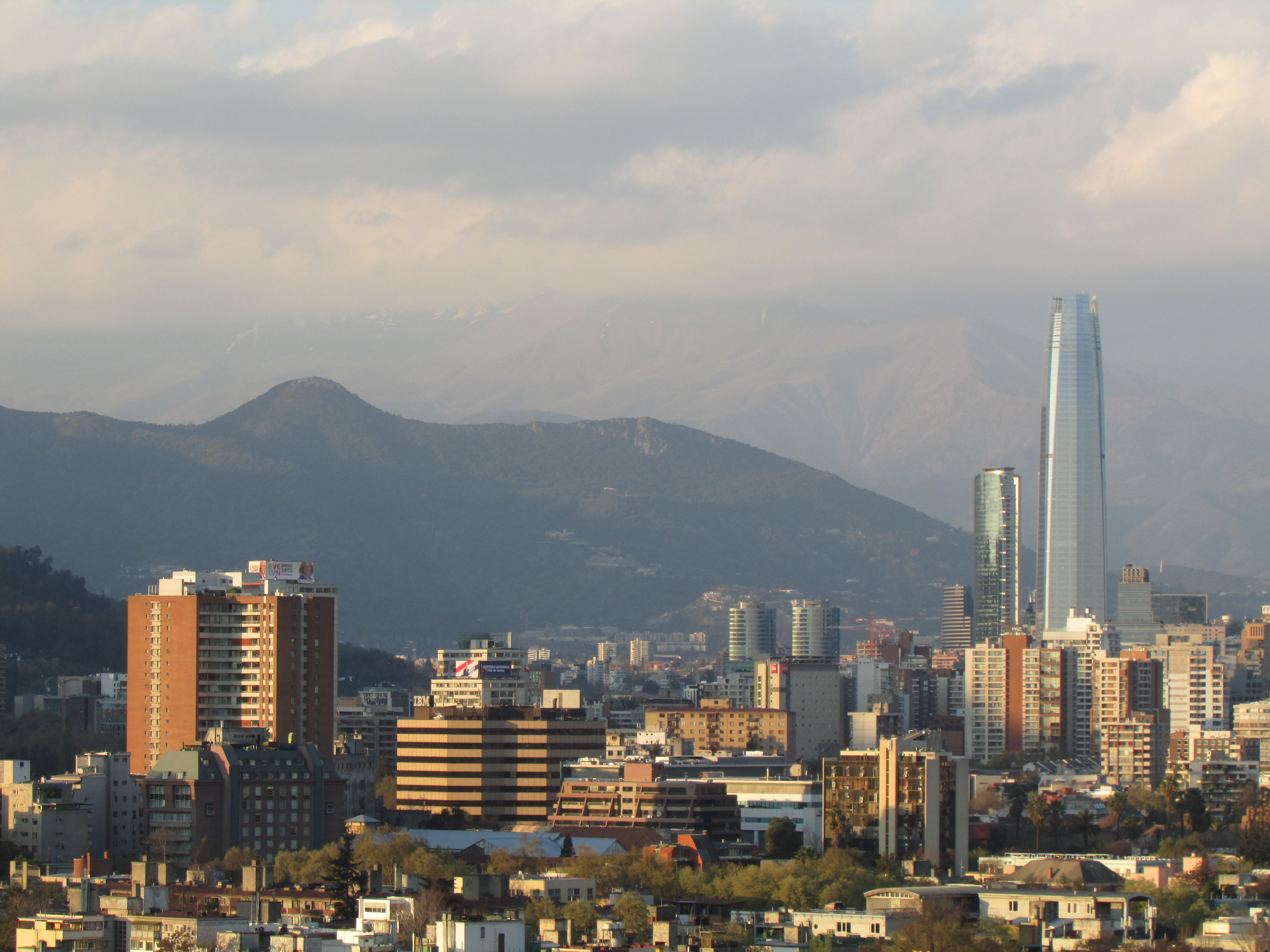 Gran Santiago Tower, Santiago